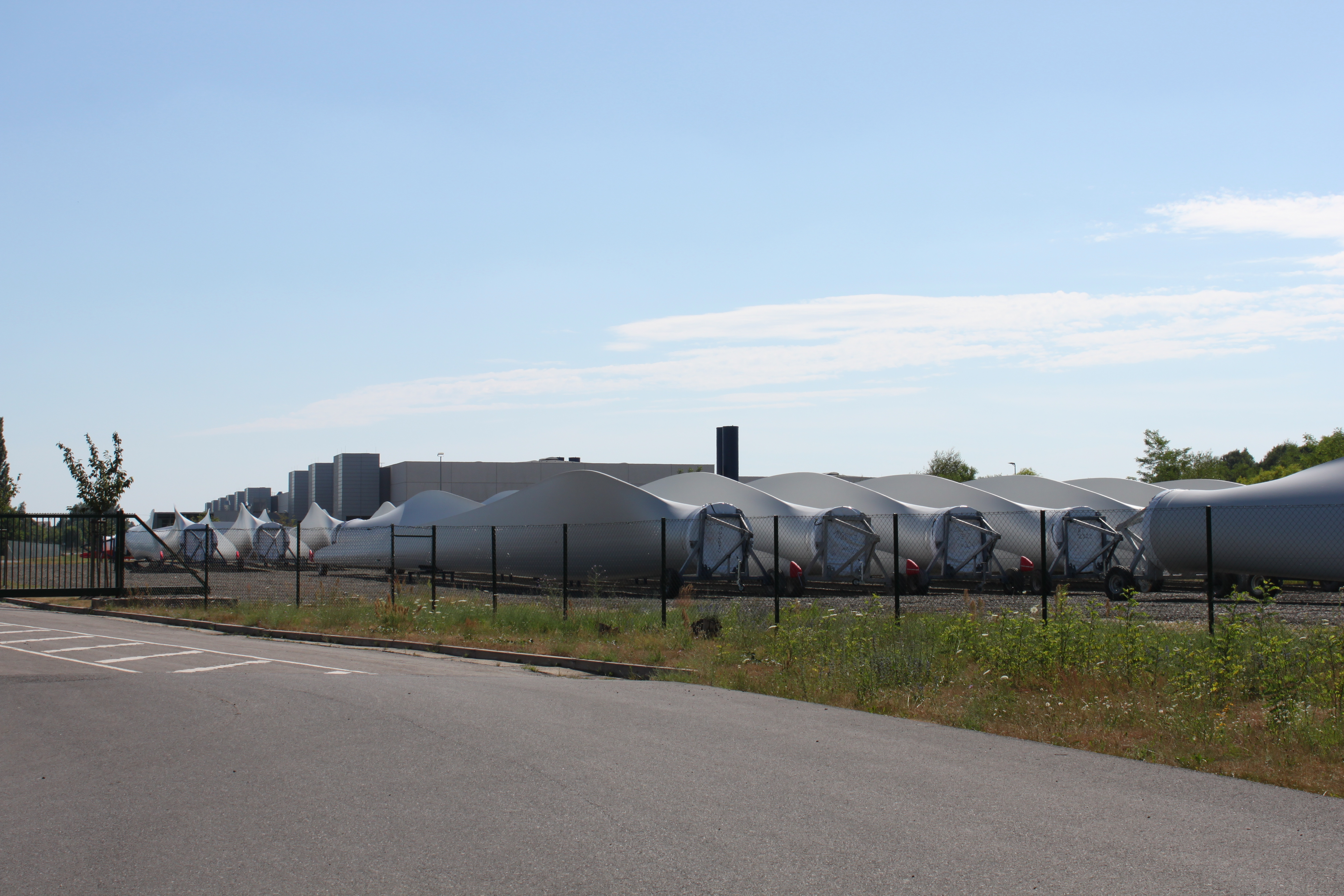 Vestas in Lauchhammer